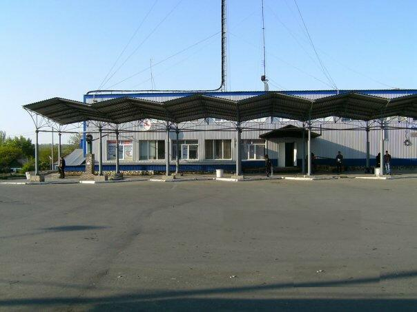 avtovokzal